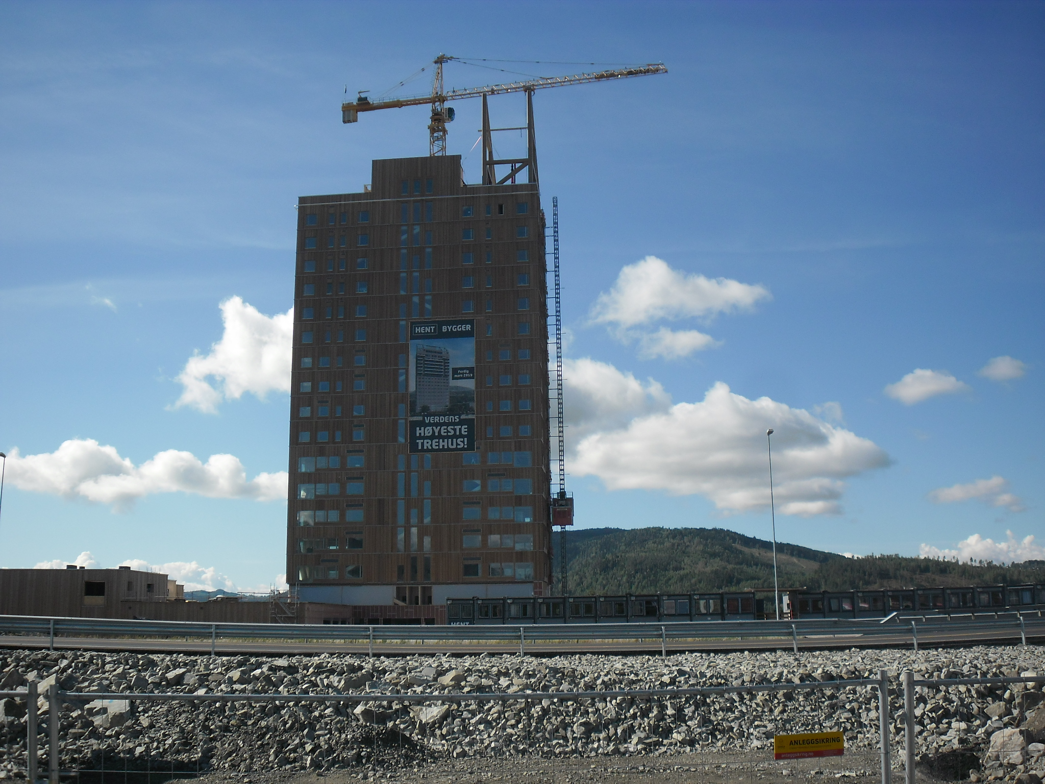 Mjøsa Tower in Brumunddal Norway; the highest wooden building in the world, under construction, August 2018. Expected ready mid 2019, at height 280 feet (85.4 m)